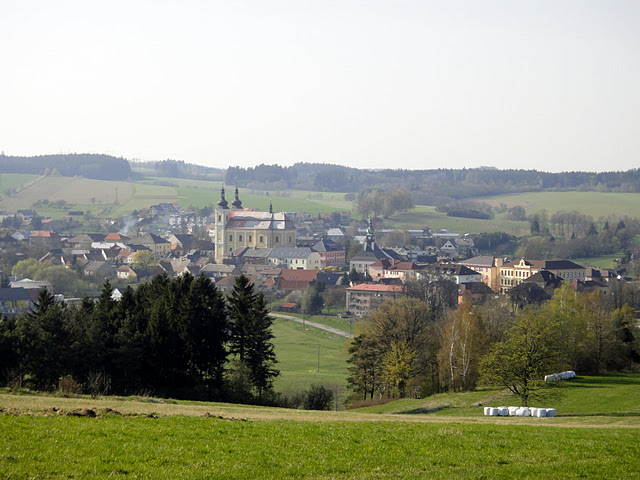 View at Bystré u Poličky